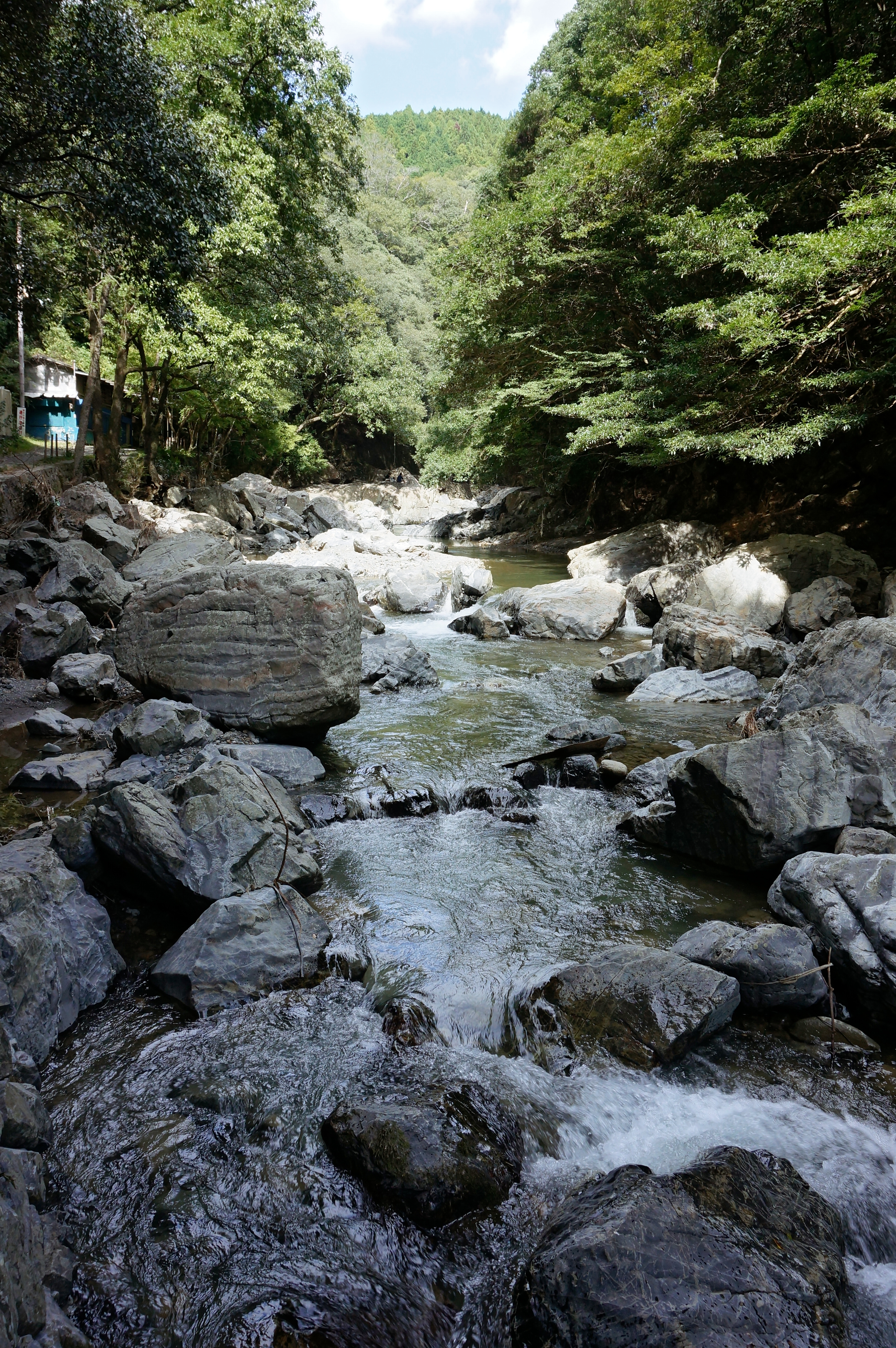 Settsu-kyo in Takatsuki, Osaka prefecture, Japan.